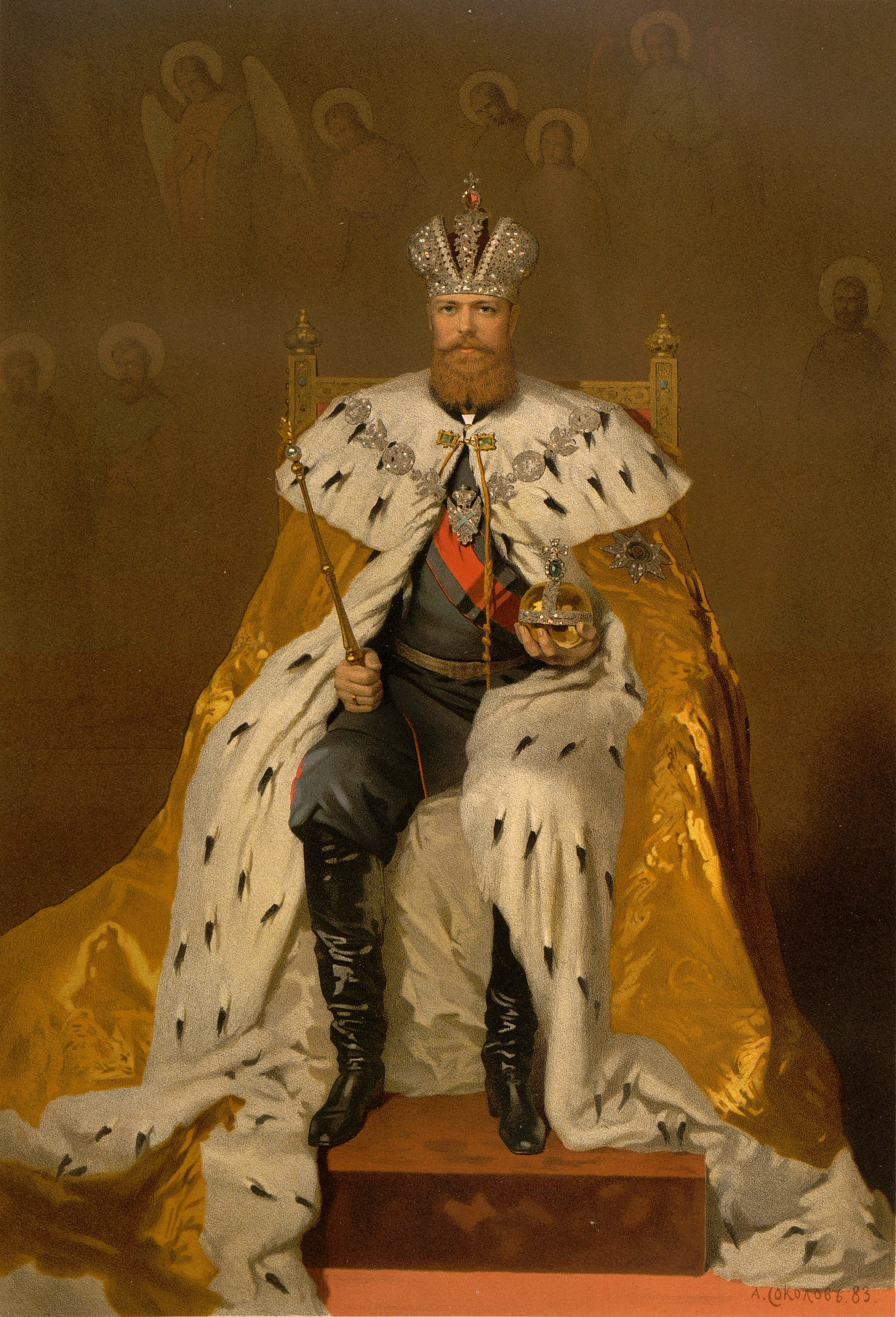 Portrait of Alexander III of Russia (1845-1894)